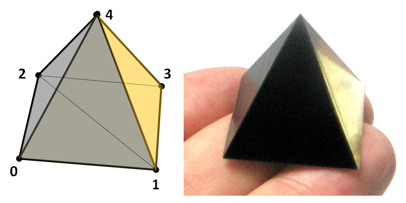 Snapshot of printed pyramid with AMF